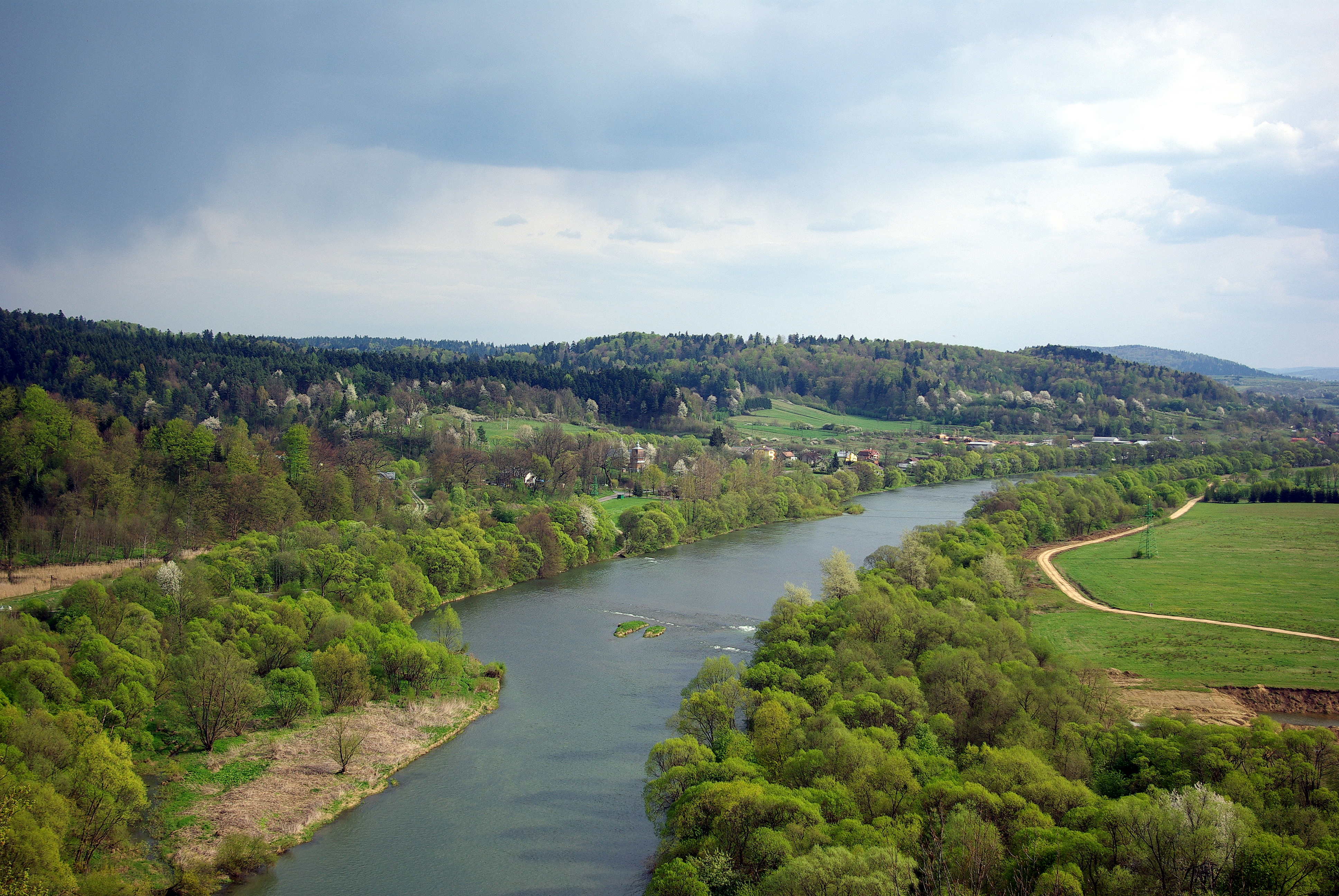 River San, view from Sobień Castle